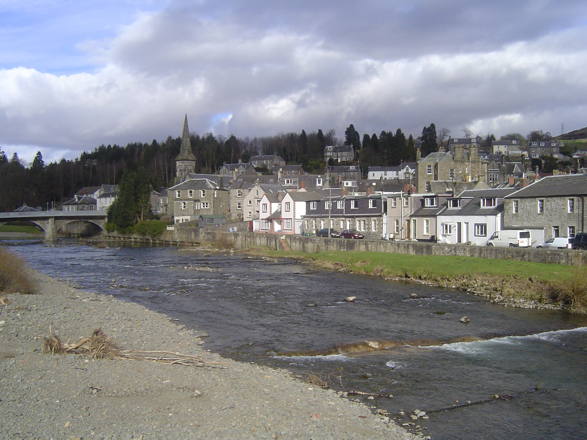 Image taken by Robert Matthews on Sunday 5 March 2006